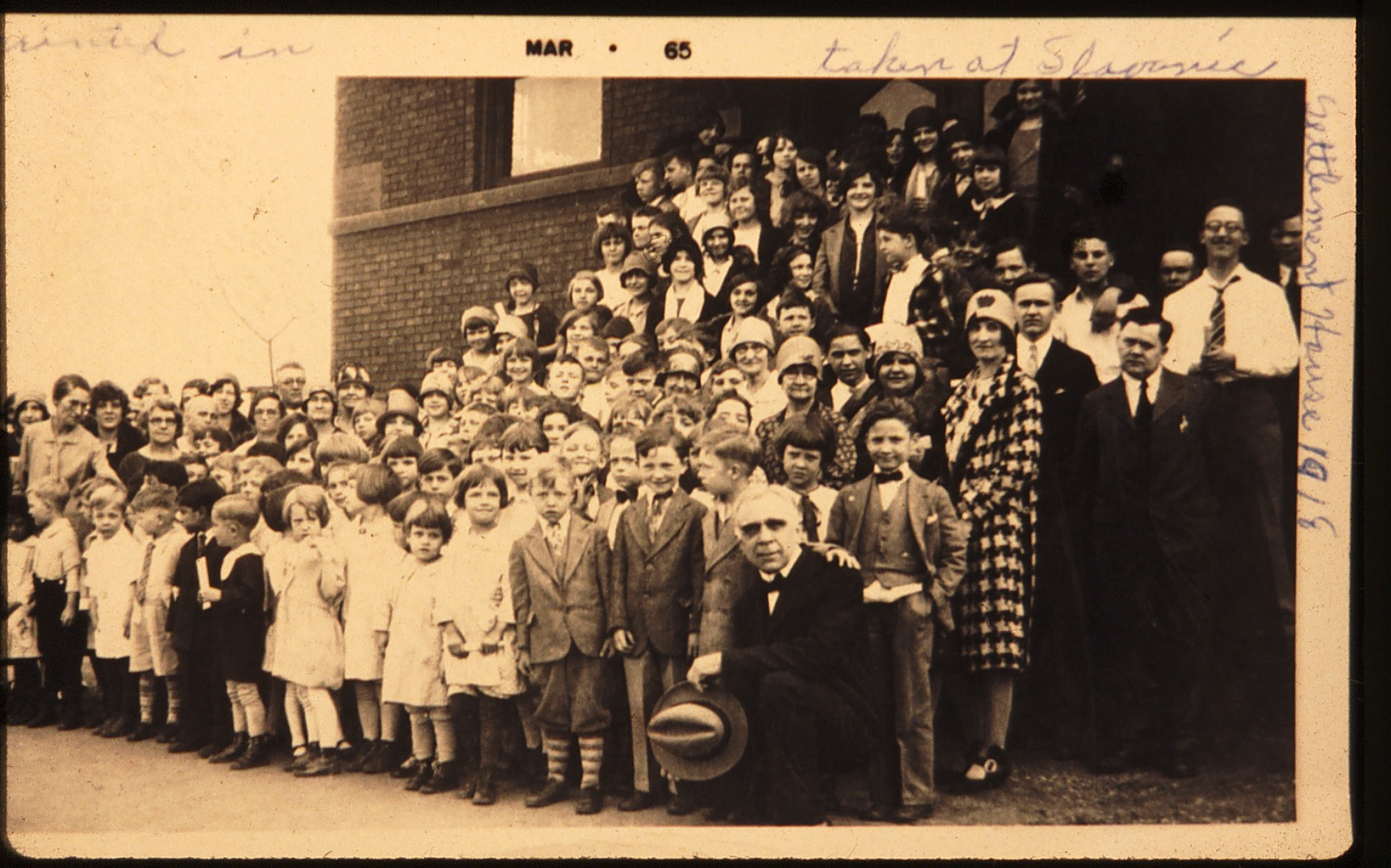 This a historic photograph taken at a settlement house